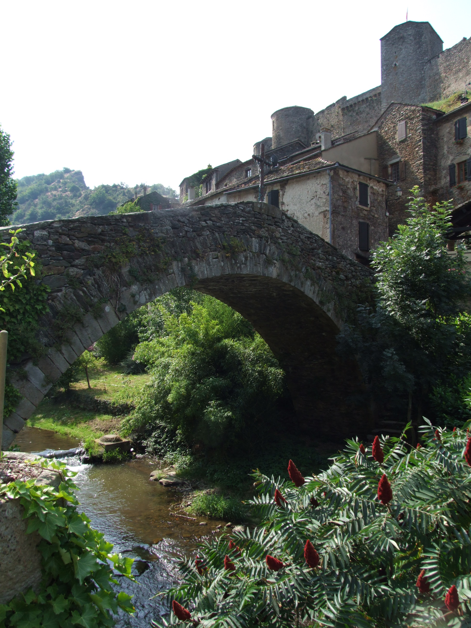 Brousse-le-Château, Aveyron, FRANCE